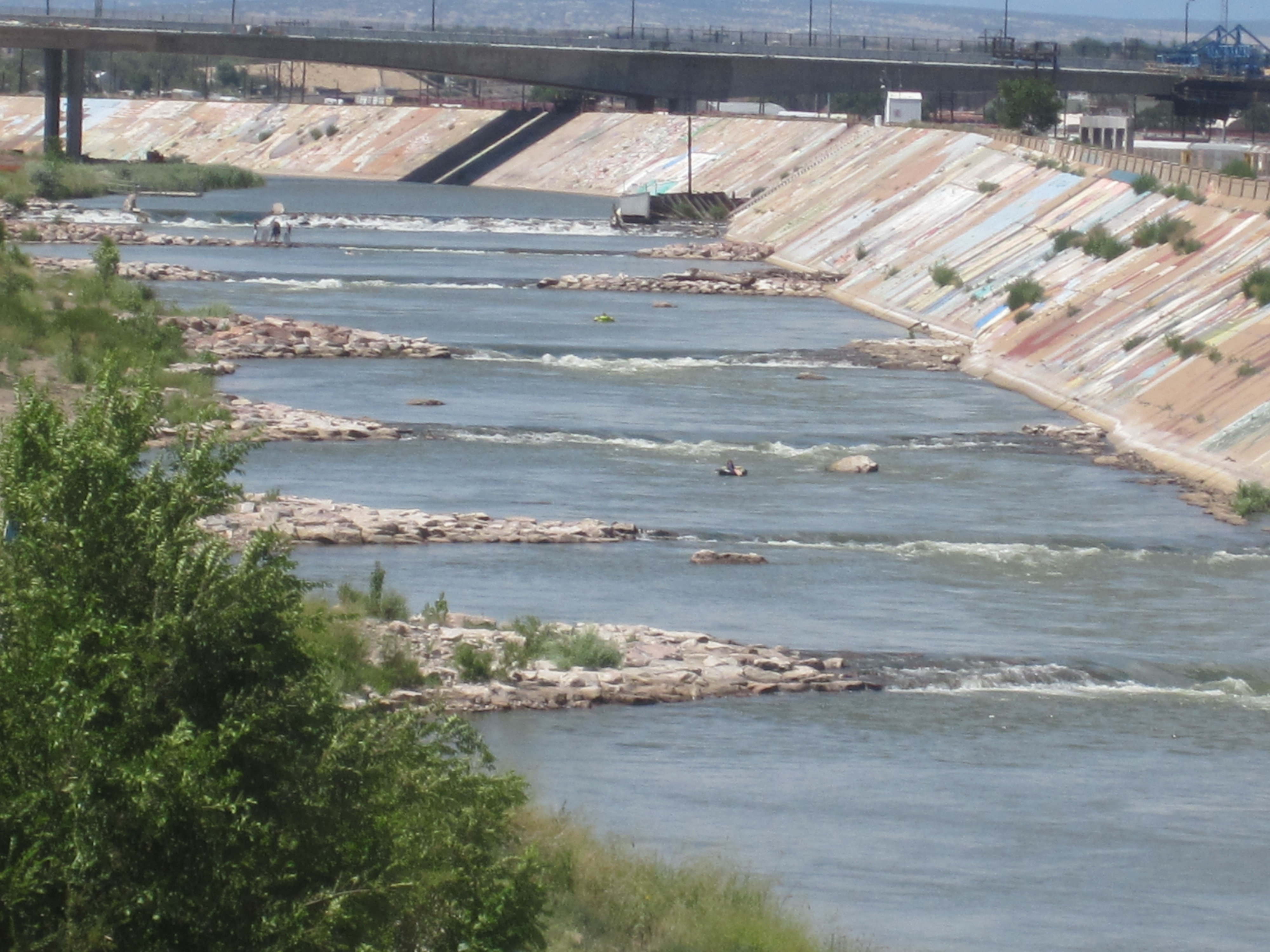 I took photo with Canon camera in Pueblo, CO.